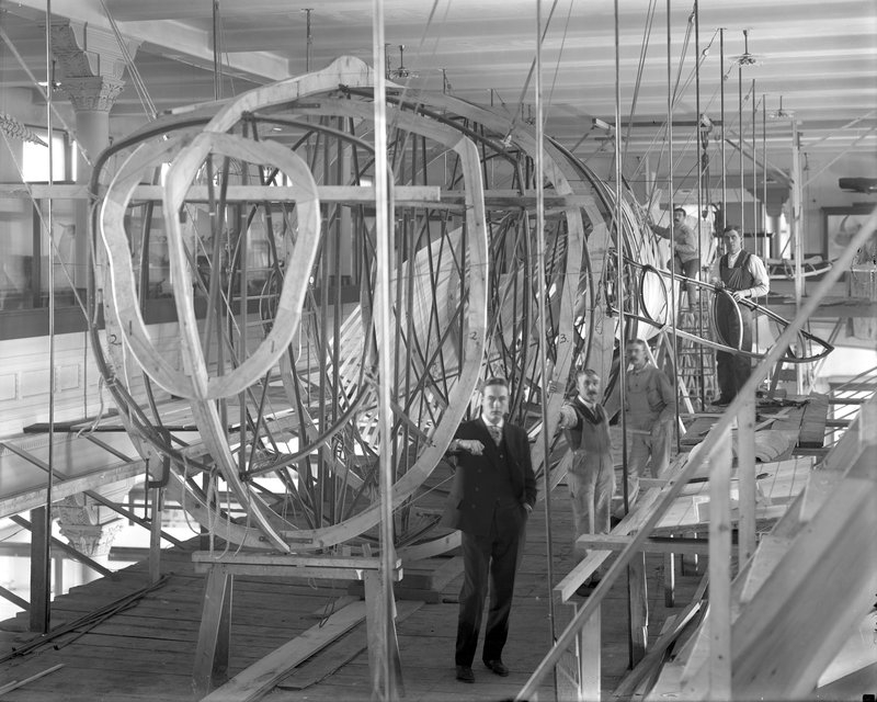 Roy Chapman Andrews in front of Blue whale model at American Museum of Natural History